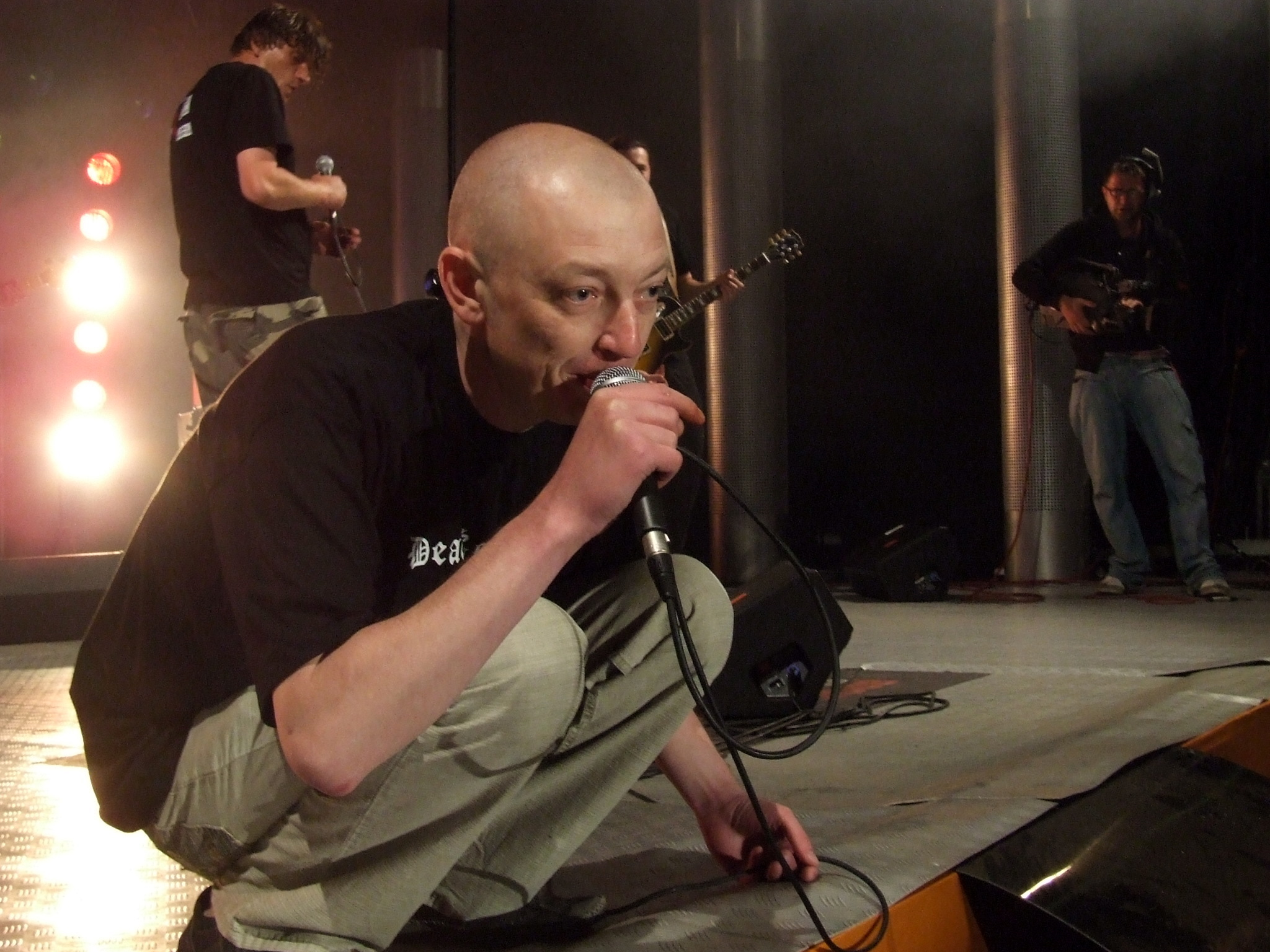 Alaksandar Kullinkovič at Basovišča Festival 2008